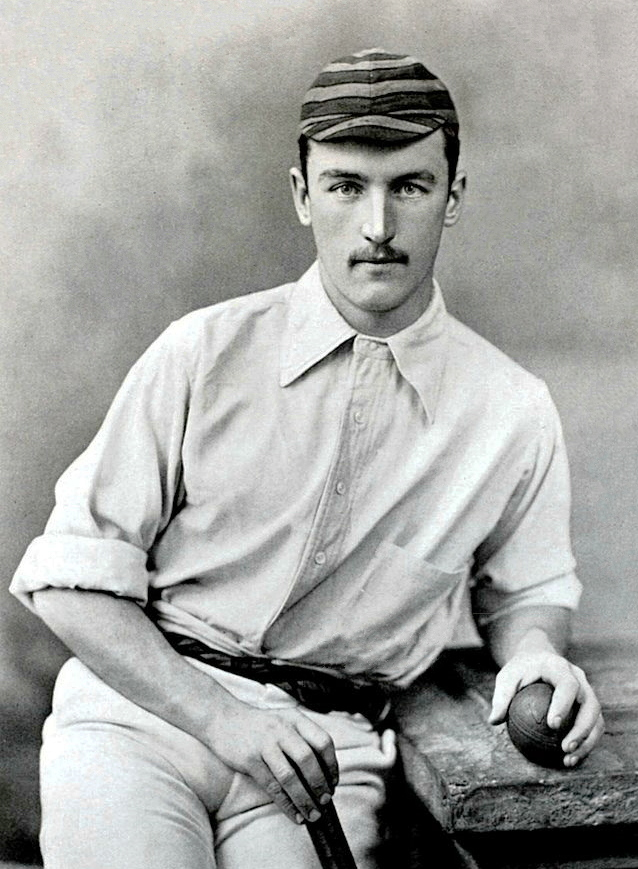 Sport, Cricket, Circa 1895, John James Ferris, played for New South Wales and Gloucestershire (1892-1895) in England, and he also played for the national teams of both Australia and England